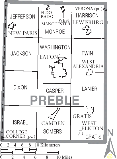 Map of Preble County, Ohio, United States with township and municipal boundaries